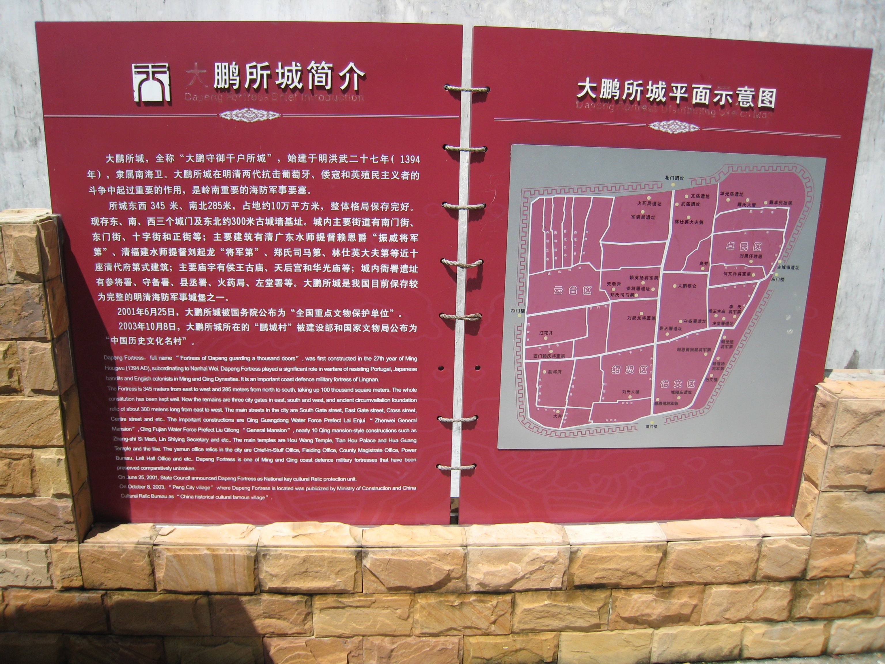 map of Dapengcheng